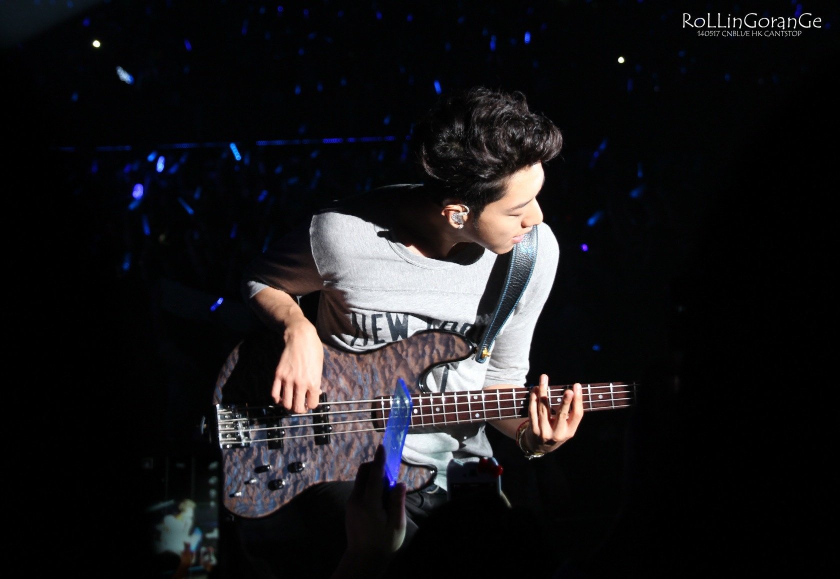 Lee Jung-shin performing at the 2014 CNBLUE Live [Can't Stop] concert in Hong Kong, China, on May 17.